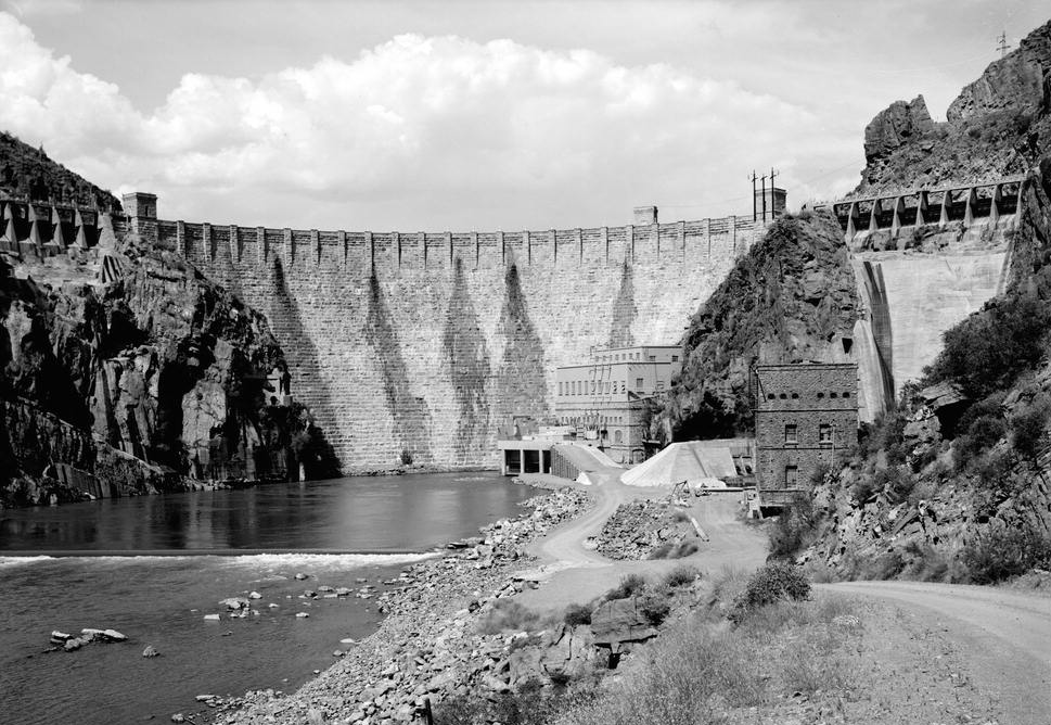 THE DOWNSTREAM FACE OF ROOSEVELT DAM. THE ROOSEVELT POWER HOUSE IS LOCATED AT THE CENTER OF THE PHOTO WITH THE TRANSFORMER HOUSE LOCATED AT THE RIGHT. THE NORTH SPILLWAY IS AT THE FAR LEFT AND SOUTH SPILLWAY AT THE FAR RIGHT Photographer: Mark Durben, 1984 HAER ARIZ,7-ROOS.V,1-52 Historic American Engineering Record URL